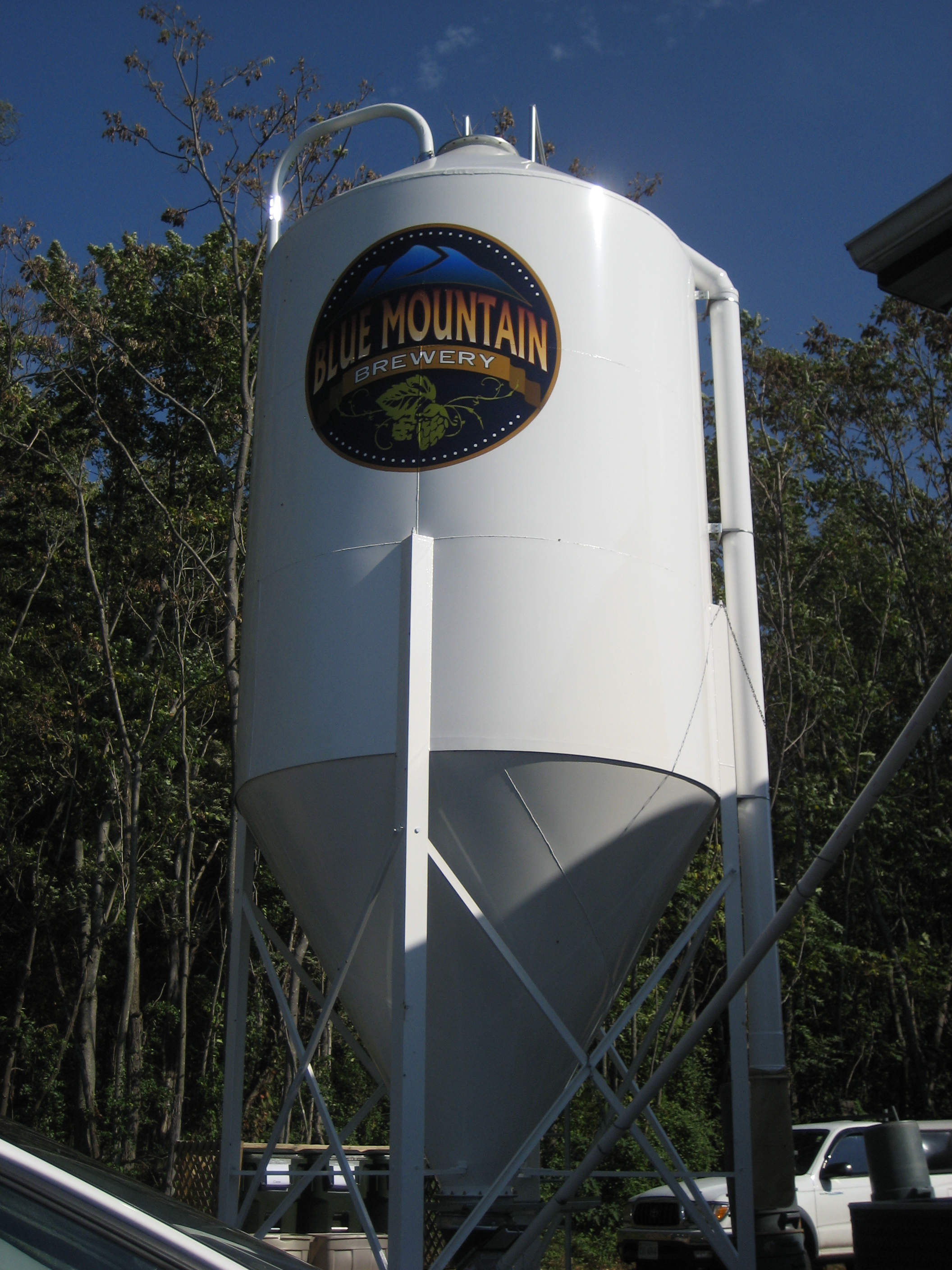 A photo of the beer fermentation tank at the Blue Mountain Brewery and Hops Farm in Afton, VA.